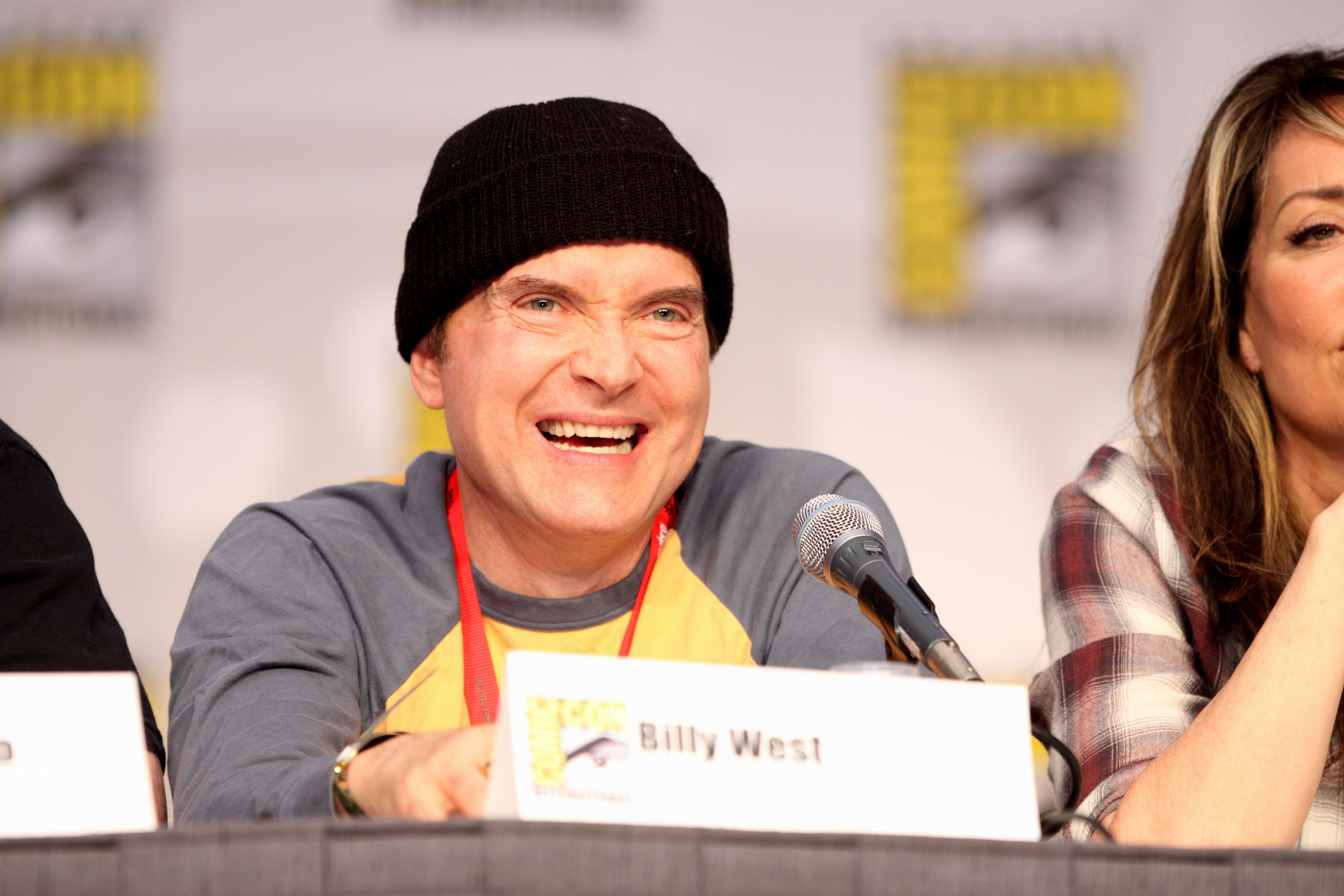 Billy West on the Futurama panel at the 2010 San Diego Comic Con in San Diego, California.